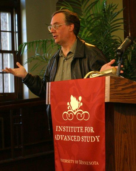 Juan Cole standing at a lectern